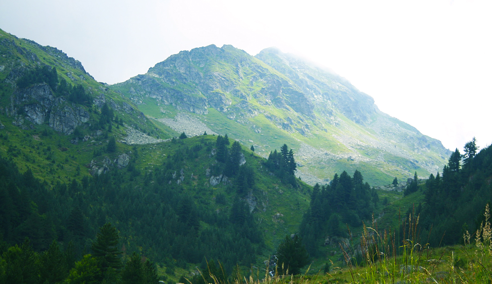 Prevalla is a park located in Sharr Mountains, on the road to Prizren, at a height of 1515 meters above sea level. The mountainous terrain, amazing landscape and fresh air make it a fantastic area for hiking, skiing and unwinding. Moreover, Lepenci River derives in this territory, which makes it even more attractive and interesting for the visitors.